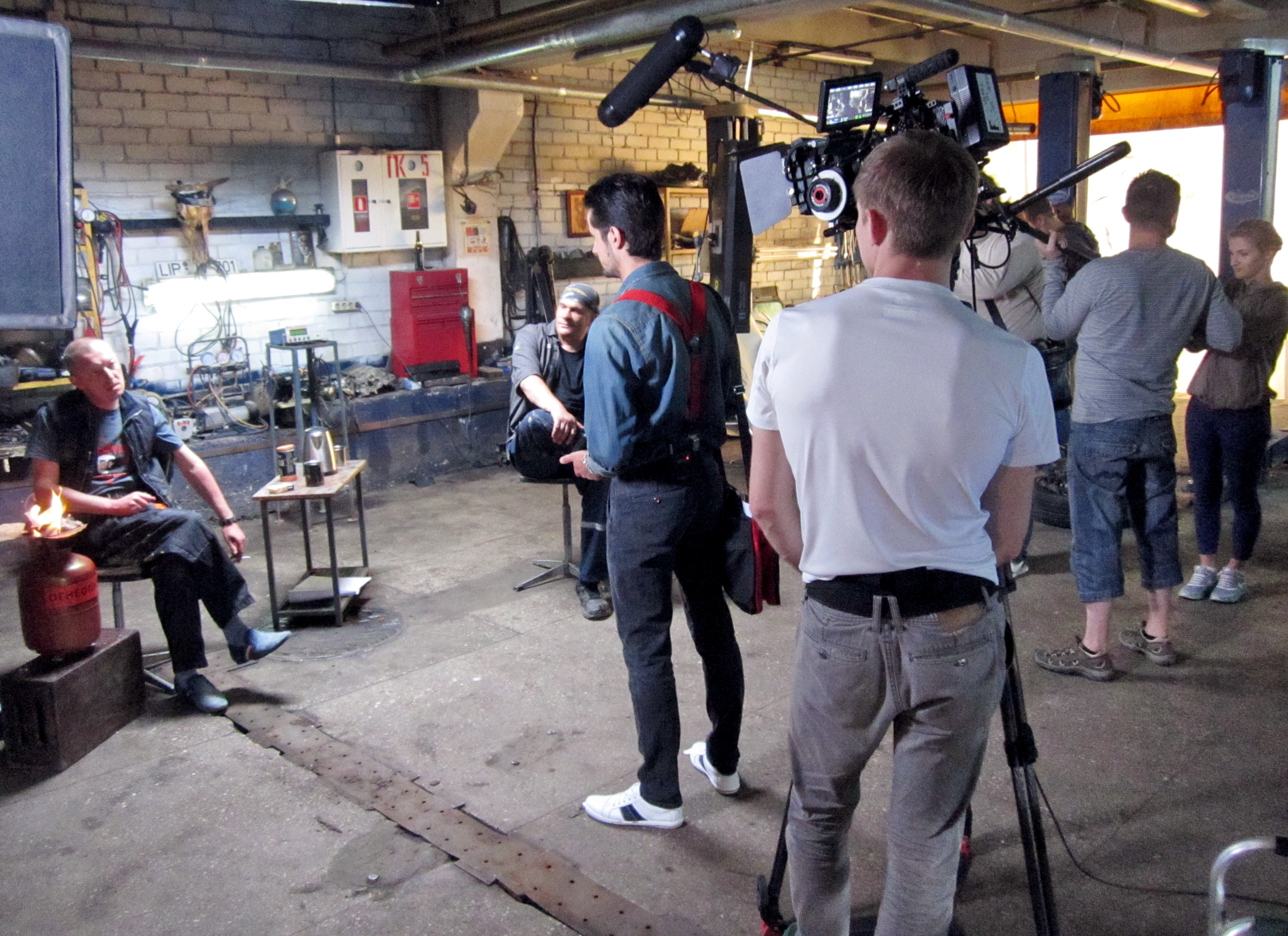 Alexander Kulinkovich during filming of "GaraSh" movie in Minsk, Belarus